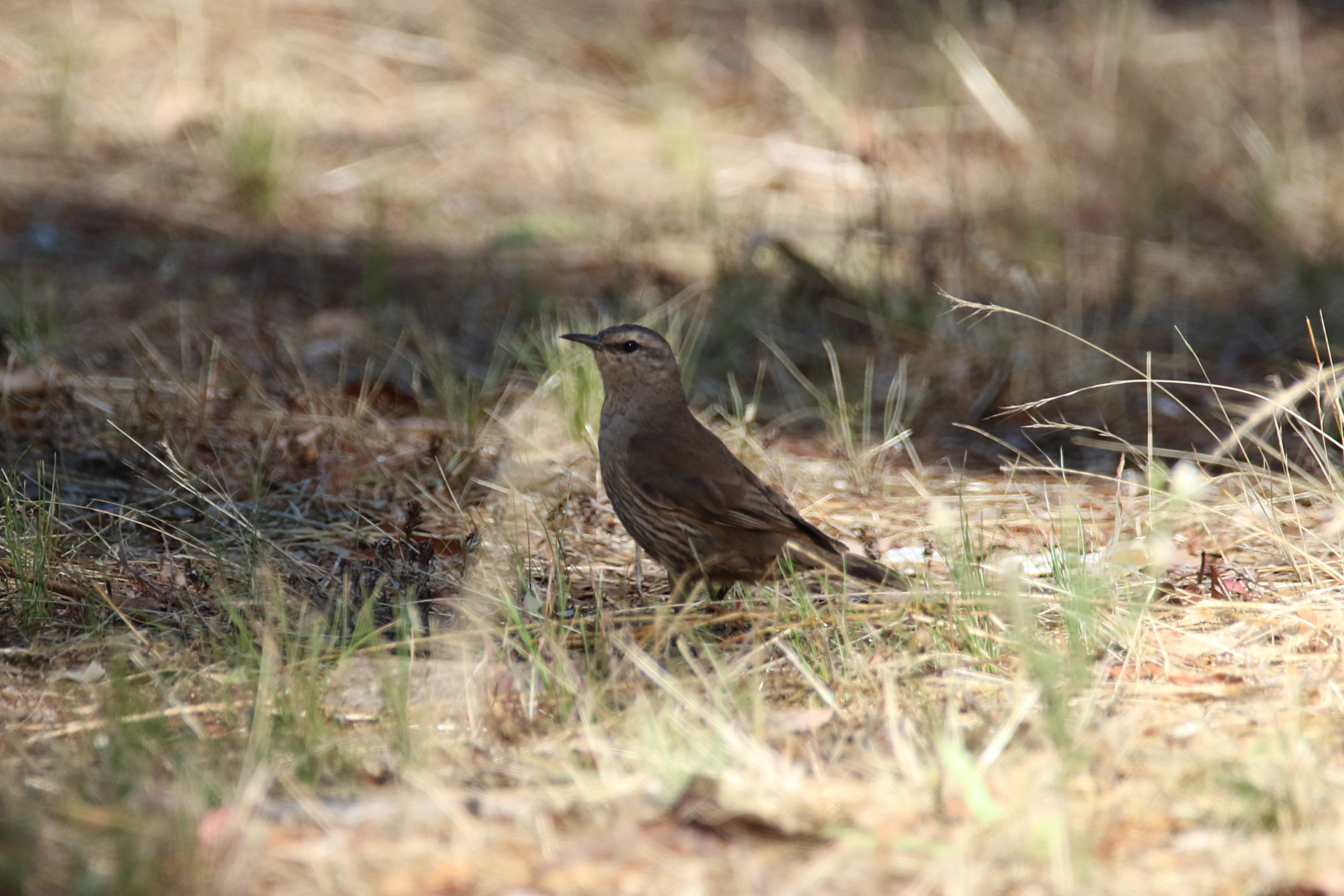 Climacteris picumnus Temminck & Laugier, 1824, Brown Treecreeper, Terrick Terrick National Park, Victoria, Australia, 21 January 2017